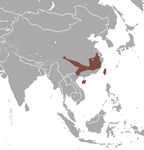 Insular Mole (Mogera insularis) range